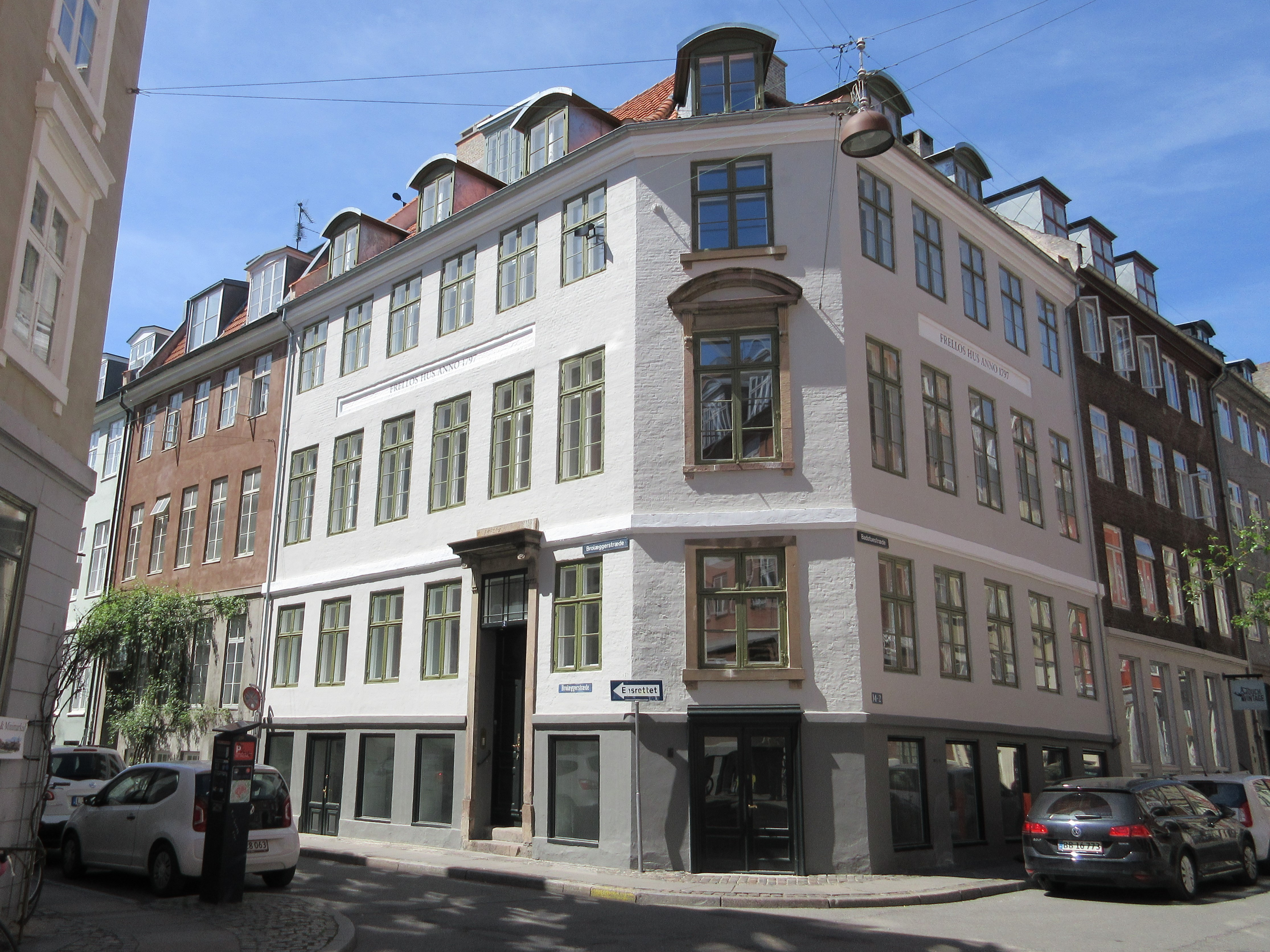 Vrolæggerstræde 2 in Copenhagen, Denmark